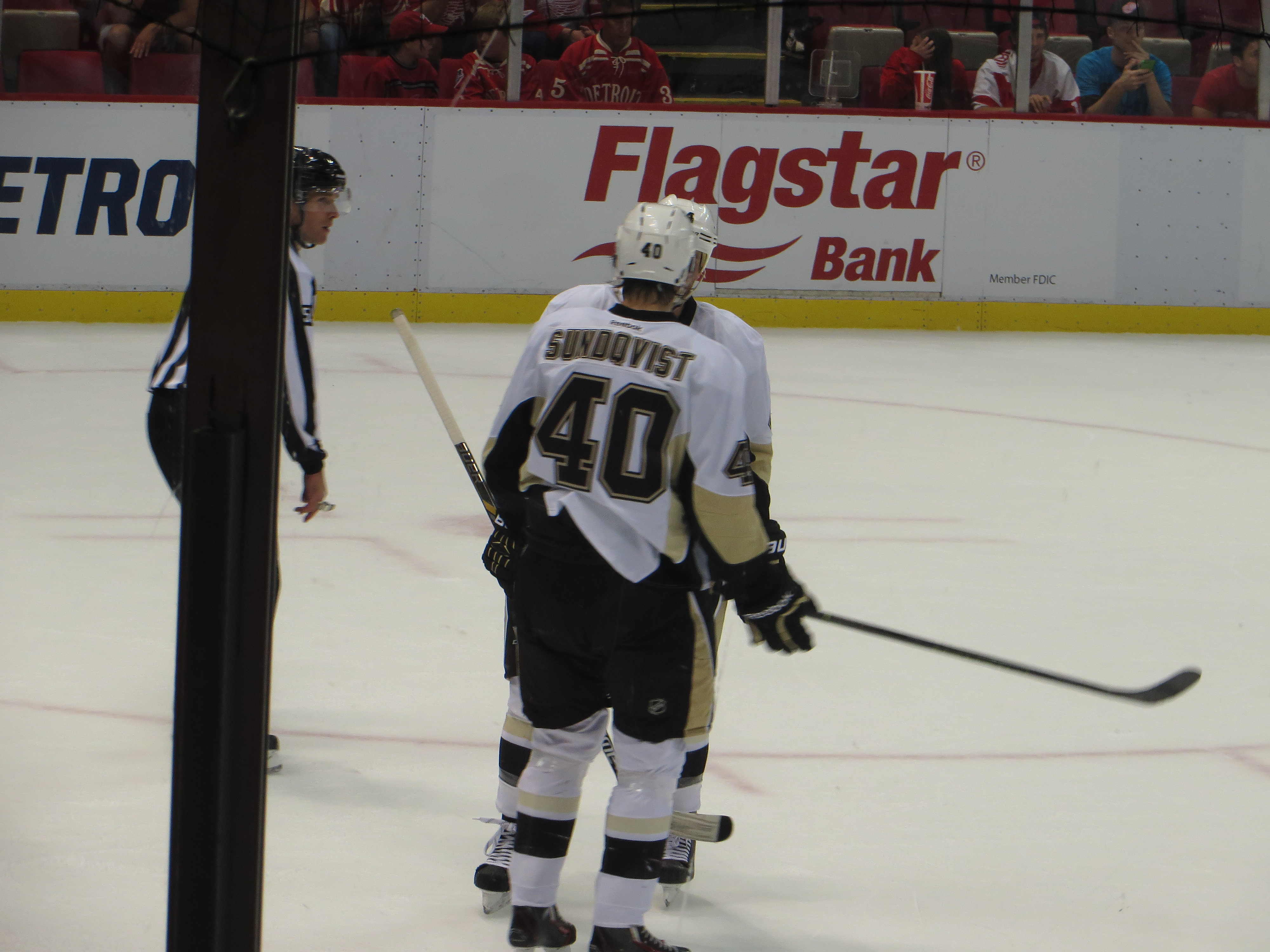 After the preseason match was over, the NHL tested an experimental 3x3 overtime period. Bonus hockey! Oskar Sundqvist (born 23 March 1994) is a Swedish professional ice hockey centre currently under contract with the Pittsburgh Penguins of the National Hockey League (NHL). Sundqvist was drafted by the Penguins in the third round, 81st overall, in the 2012 NHL Entry Draft. Sundqvist was drafted whilst playing with his original club from youth levels with Skellefteå AIK of the Swedish Elite League. He played in his first Elitserien game on 24 October 2012, against Frölunda HC. On 31 May 2014, Sundqvist was signed to a three-year entry level contract with the Pittsburgh Penguins. During the 2015–16 season, Sundqvist was recalled from AHL affiliate, the Wilkes-Barre Scranton Penguins and made his NHL debut with Pittsburgh on 5 February 2016.